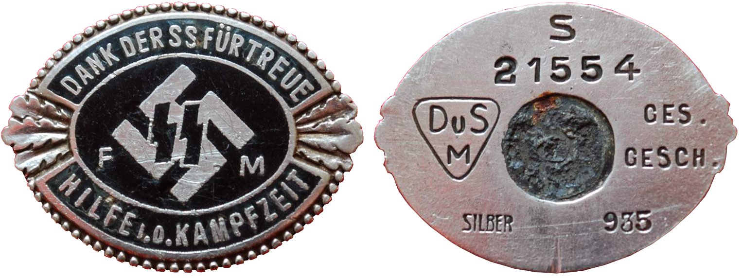 Silver pin ("Ehrennadel") of a "Förderndes Mitglied der SS" (FM-SS), obverse (left) and reverse (right). The Ehrennadel for FM-SS were authorized in 1934.